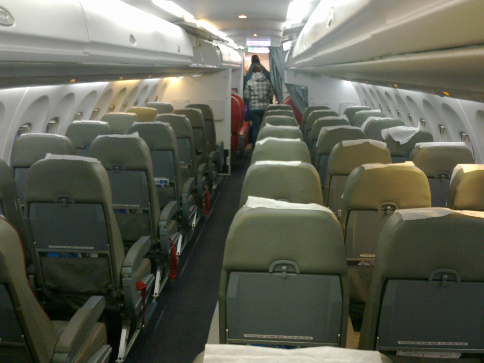 Cabin of Antonov An-148 aircraft